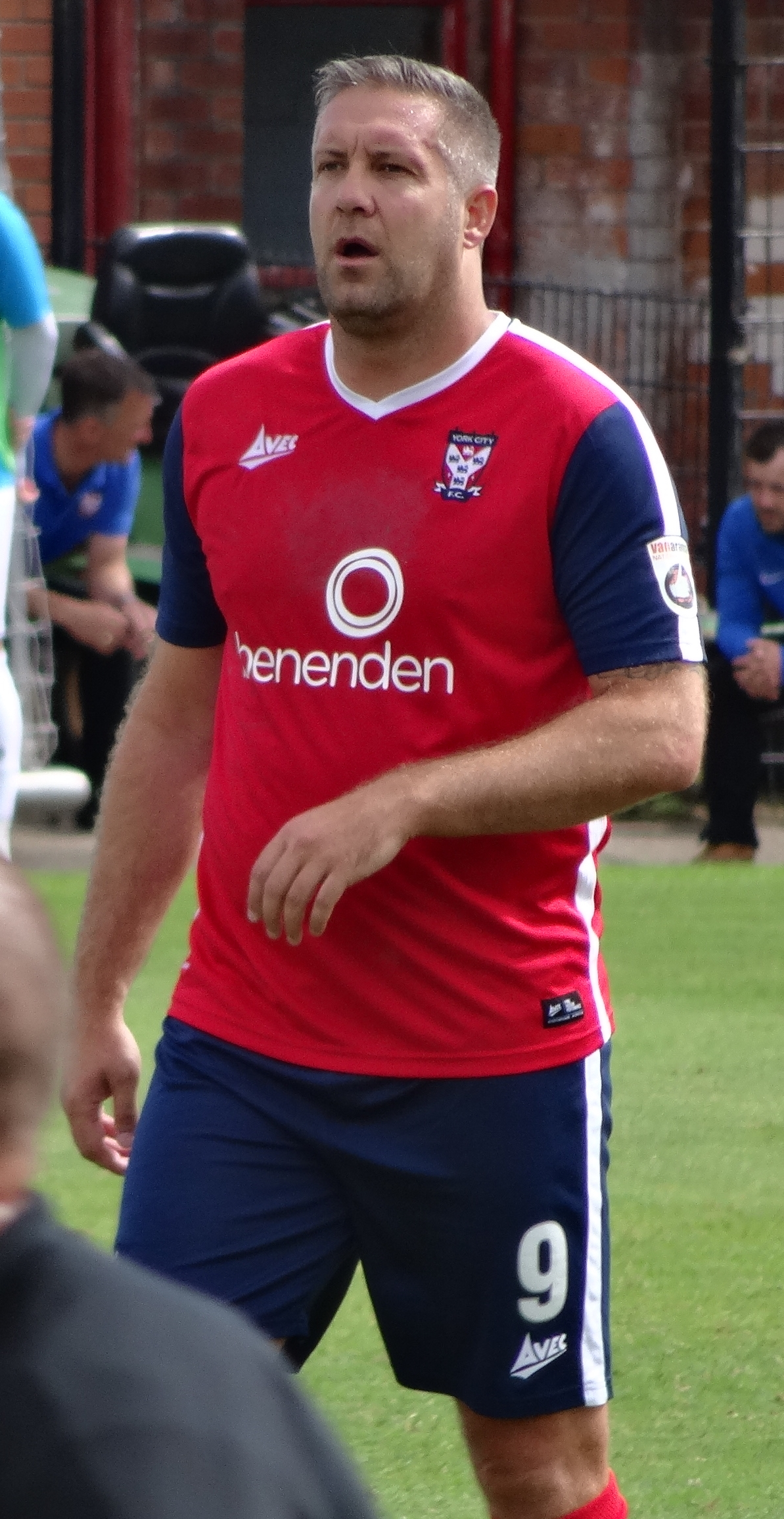 Jon Parkin playing for York City against AFC Telford United at Bootham Crescent, York on 5 August 2017